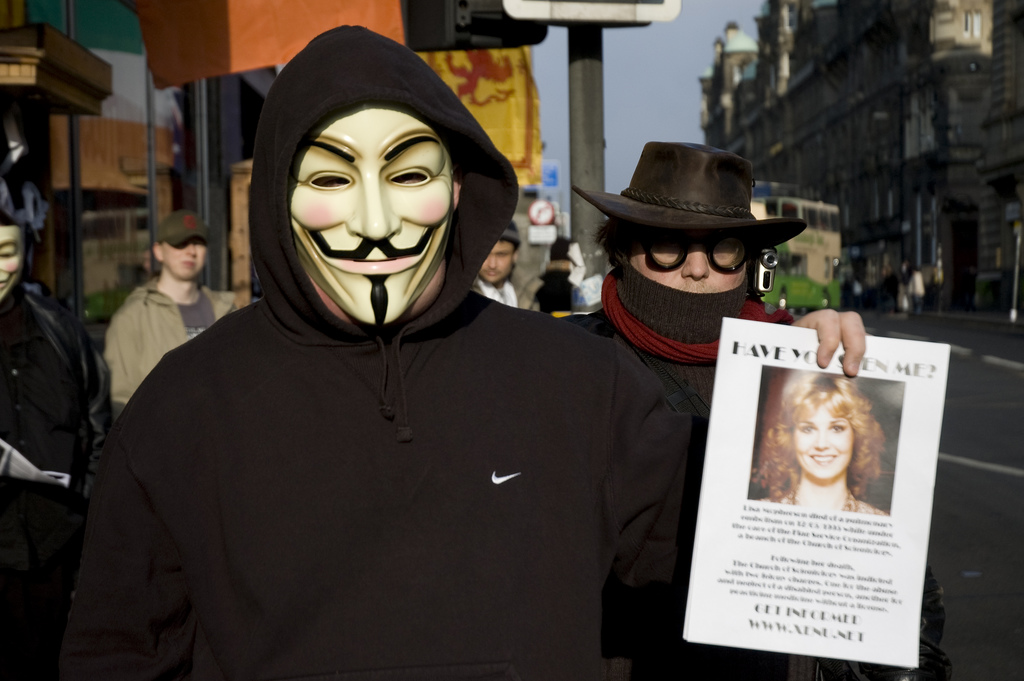 Protesters picketing against Scientology in 2008 in Edinburgh Scotland on February 10.